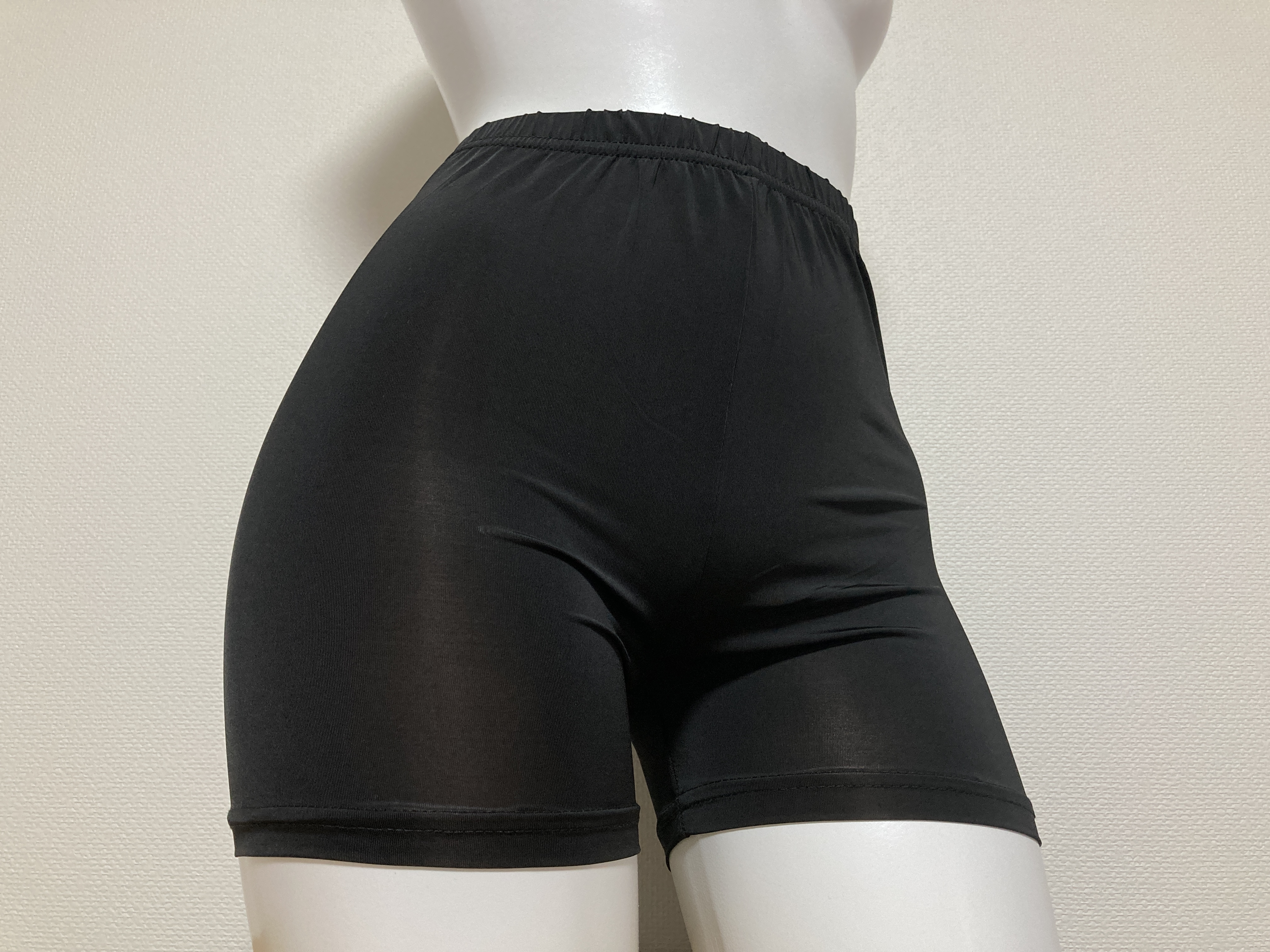 Liapom leggings micro